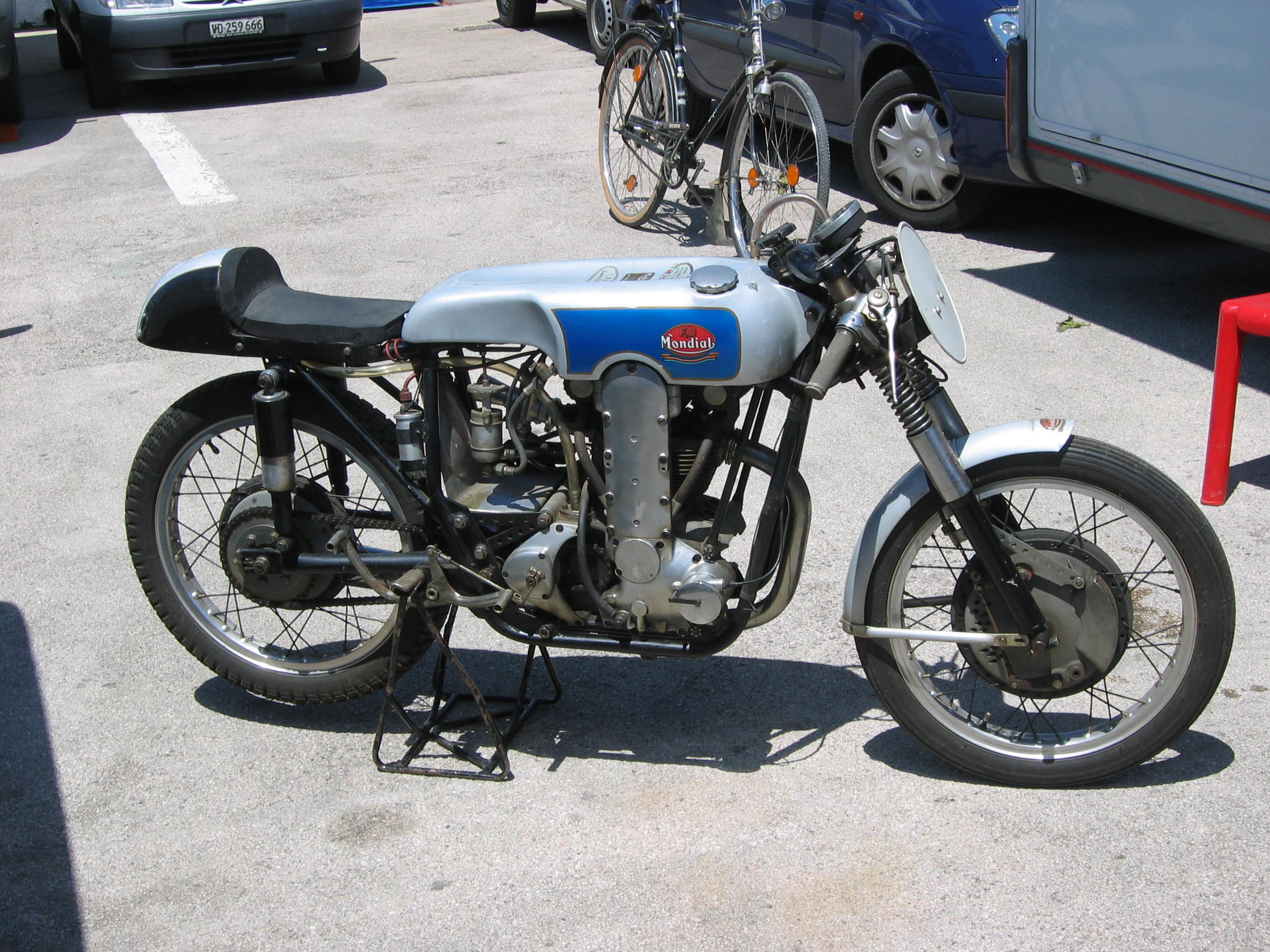 Italian FB-Mondial racing motorcycle Picture : Gérard Delafond